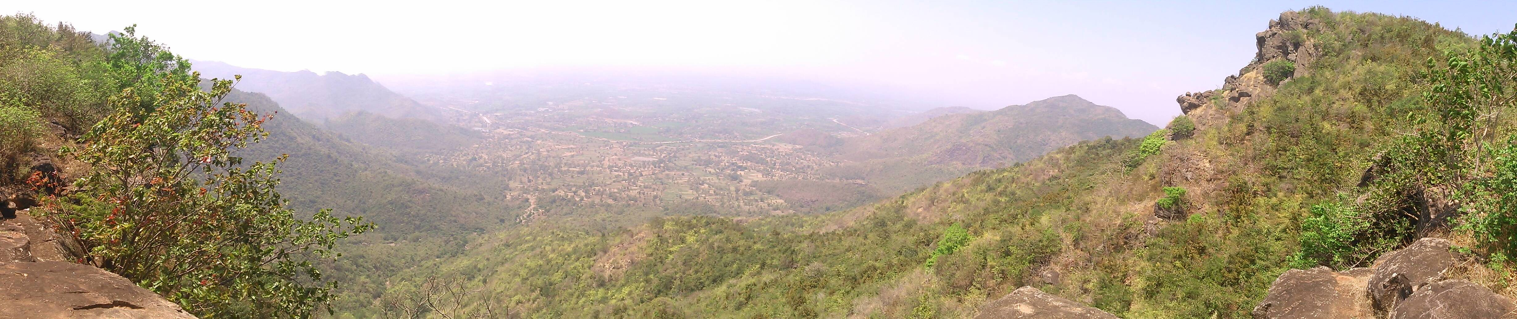 hello point